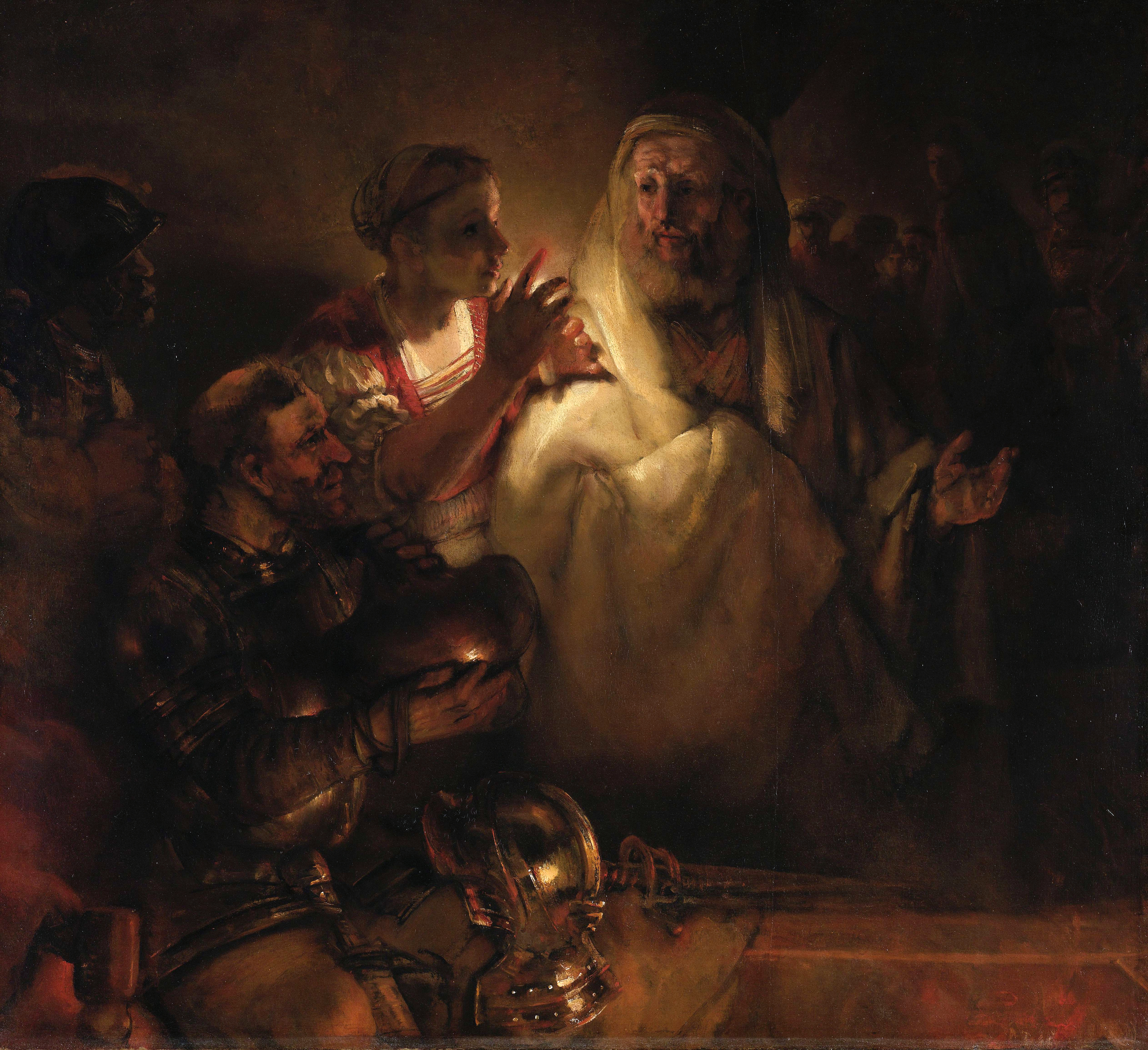 St Peters'denial. With his left hand the disciple Peter makes a gesture of denial in response of the accusations made by Caiaphas' maidservant, who is standing next to him holding a candle. To the left two soldiers in armor are present, one of whom is sitting at a table. To the right a chained Christ looks over his shoulder while he is being taken away.